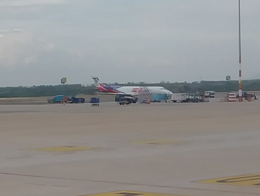 Star Air Embraer 145LR parked at Kempegowda Airport in Bangalore